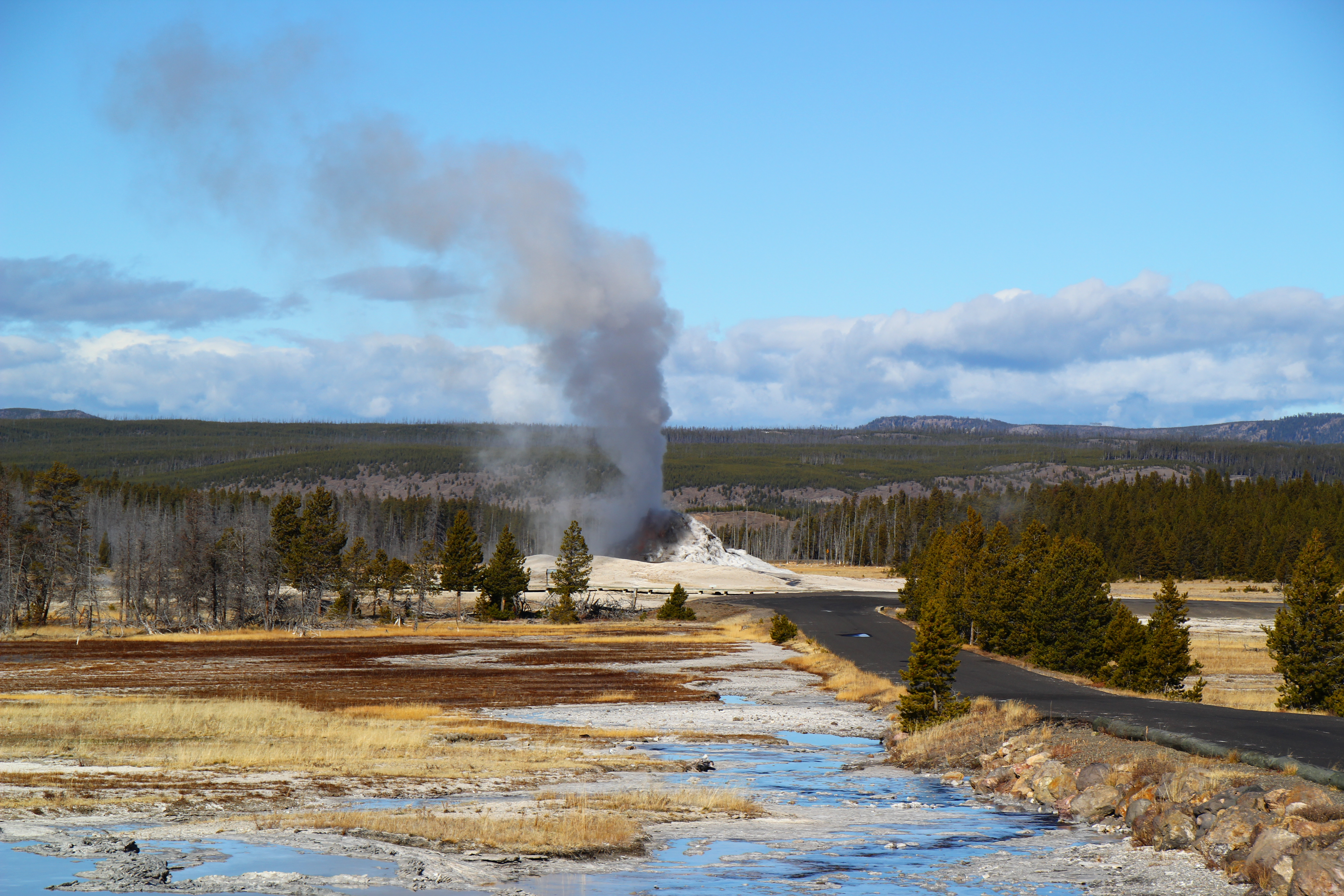 Steamphase of the White Dome Geyser in Yellowstone Nationalpark